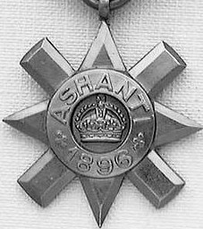 Ashanti Star 1896 obverse